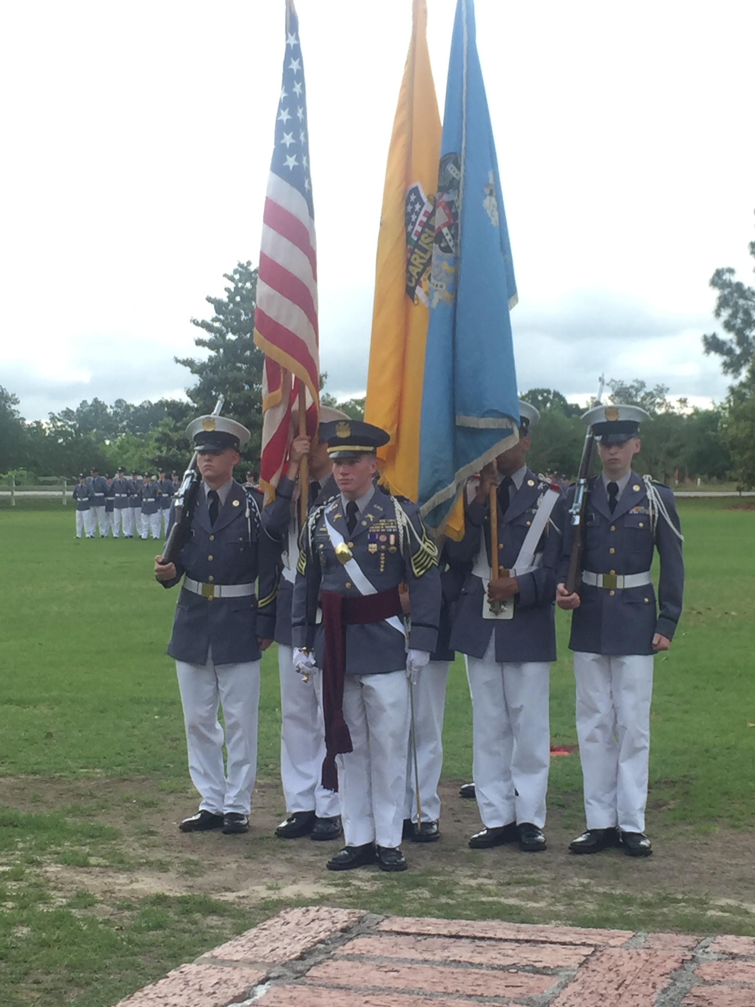 The Battalion Commander with the Camden Military Academy Color Guard during the graduation parade in Camden, South Carolina, U.S. on 20 May 2018